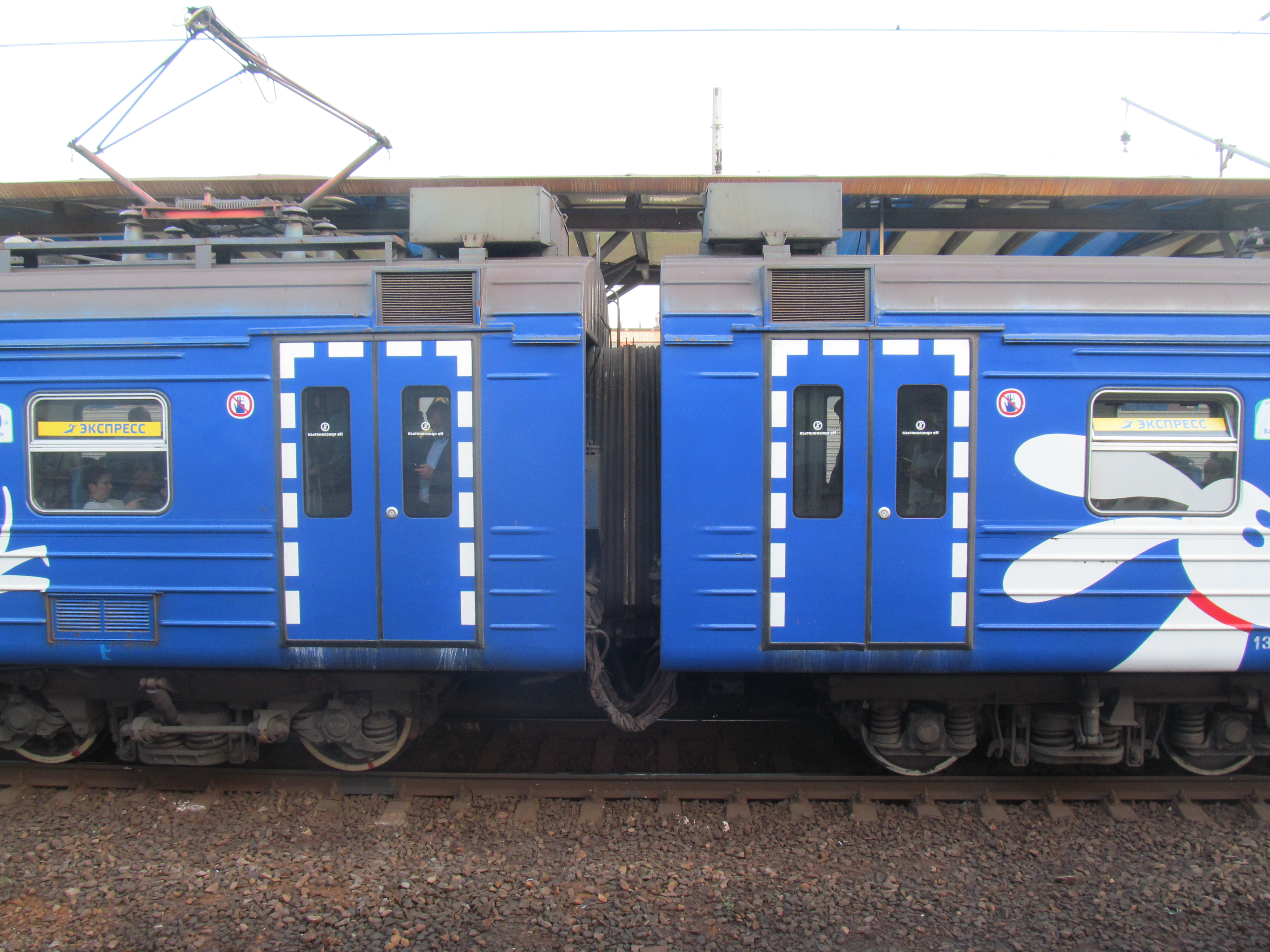 ED4M-0353 EMU. Inter-car gangway and entry doors